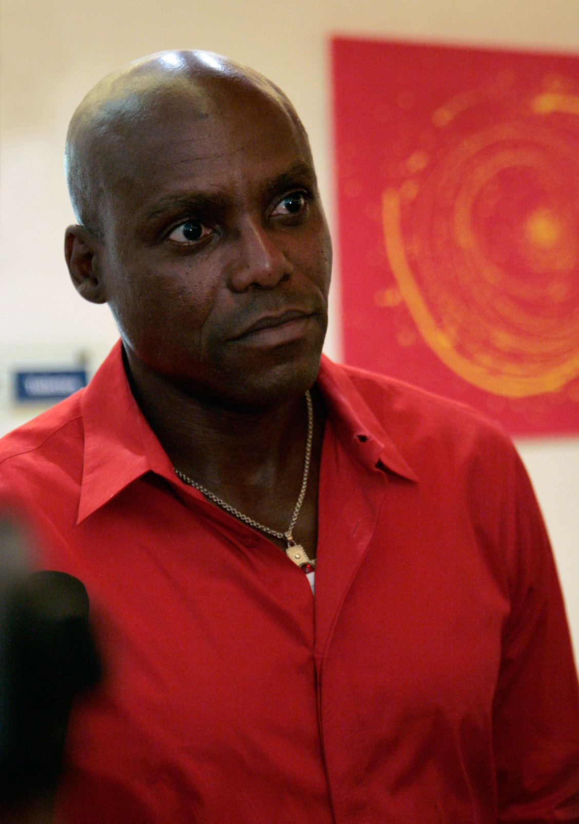 Carl Lewis during the press conference for the Save the World Award 2009 (Palais Niederösterreich, Vienna)